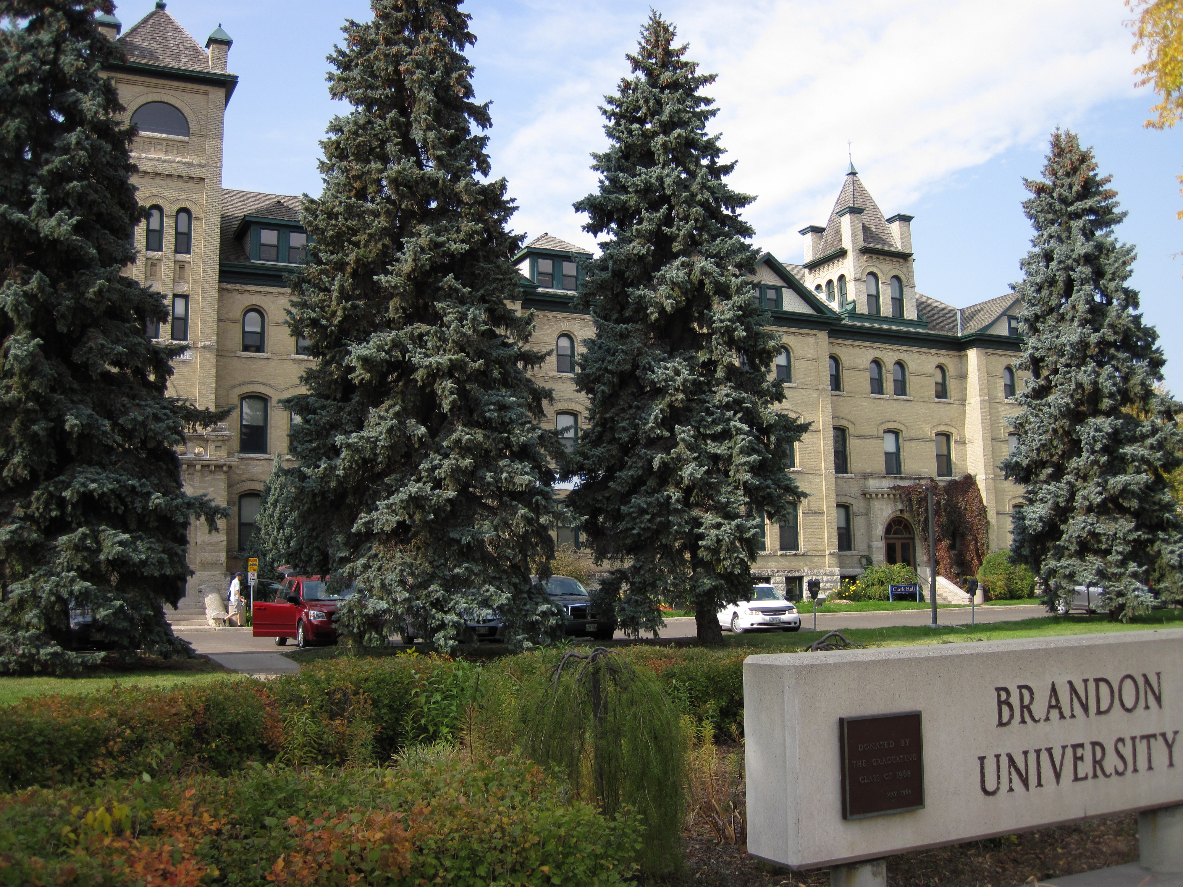 Brandon College and Clark Hall buildings. Built in 1900-01 and 1905-06 in the Romanesque Revival style, the buildings face 18th St. in Brandon, Manitoba and are now part of the Brandon University campus.